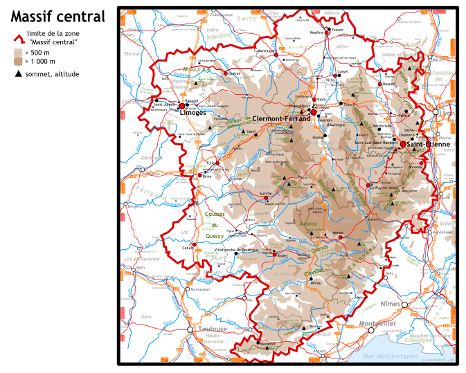 Map of Massif Central, in France